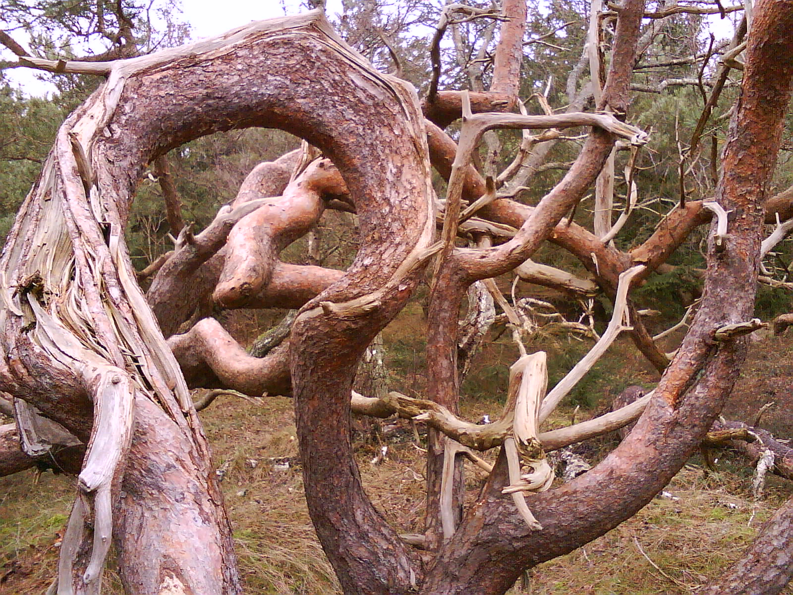 Troll forest, Tisvilde Hegn, North Zealand, Denmark